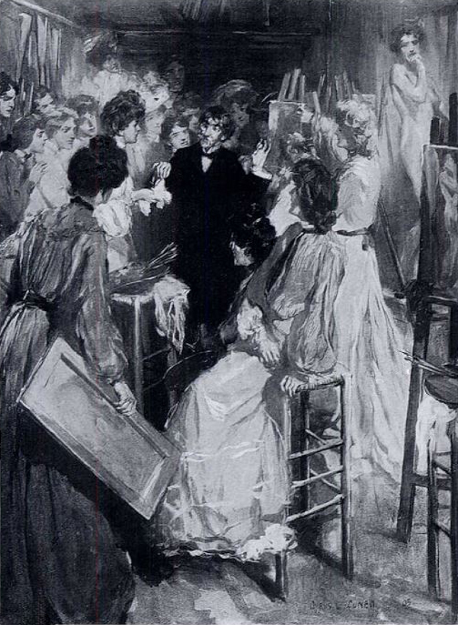 Cyrus Cuneo "He never had a more ardent lot of followers than the girl students; they adored him." In: "Some Parisian Recollections by Cyrus Cuneo", Pall Mall Magazine Vol. XXXVIII, November 1906, No. 163 (one of seven illustrations.)